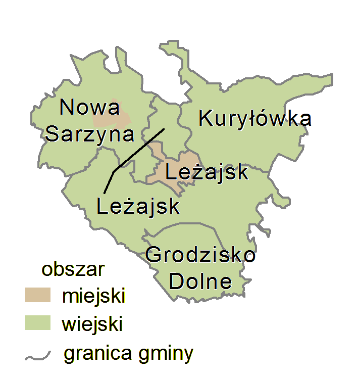 Subcarpathian Voivodeship - mielecki county gminas